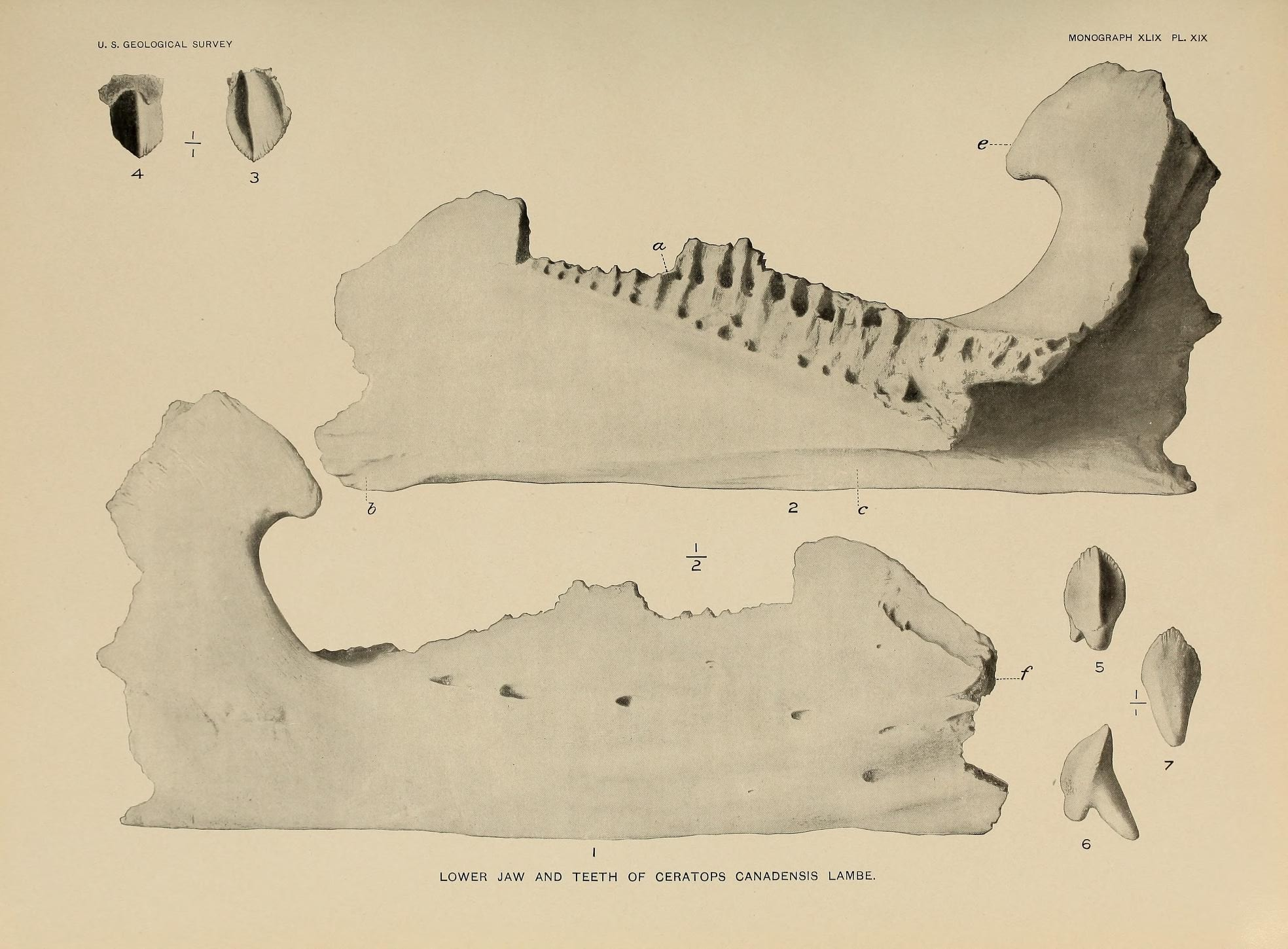 Lower jaw and teeth of Ceratops canadensis Lambe.